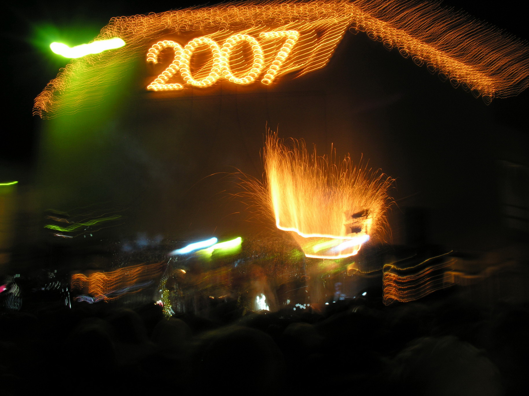 Christmas tree feast in Mazeikiai, Lithuania_2006-12-01